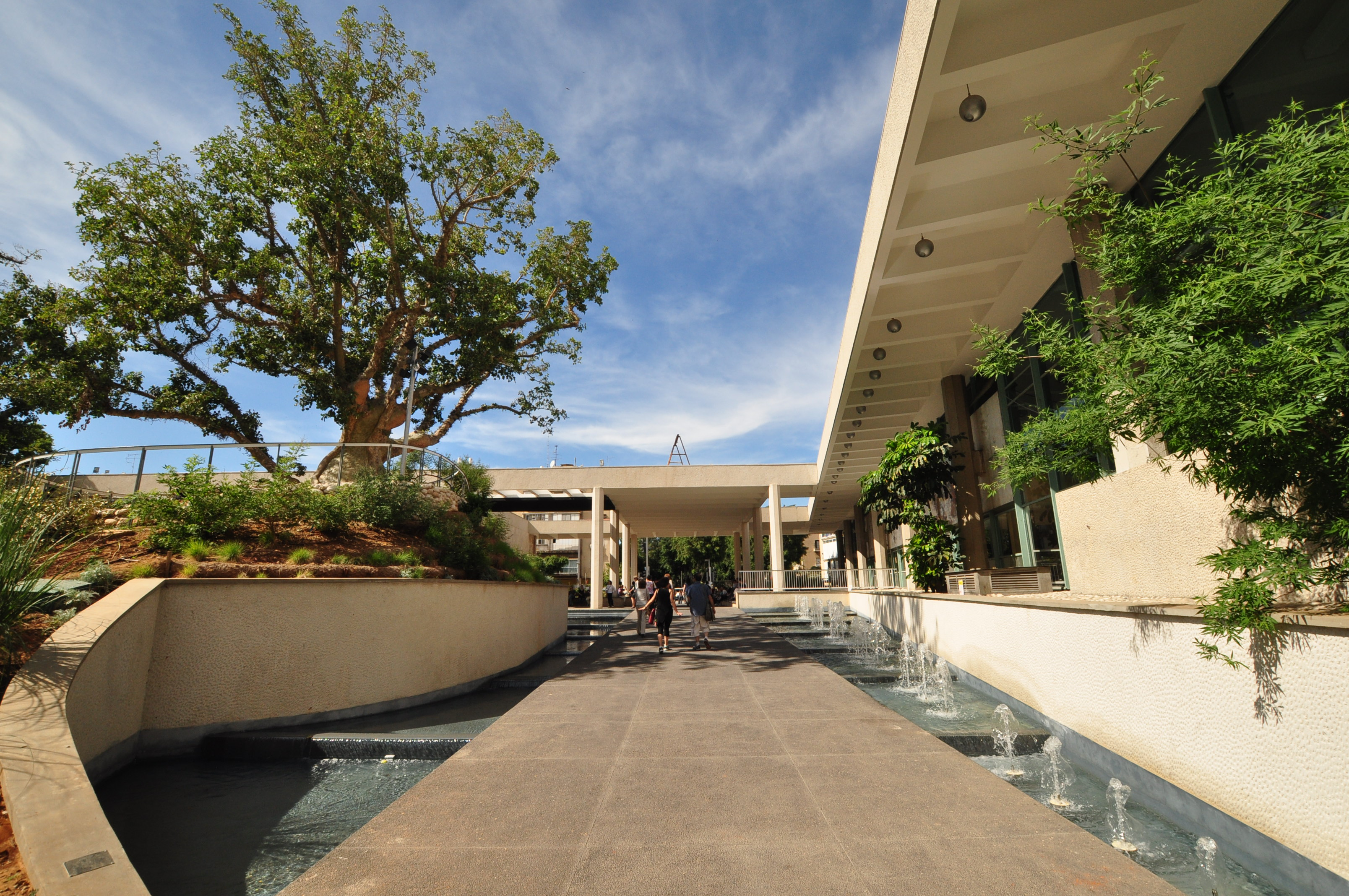 Gan Yaakov in Tel aviv after renovation. this picture shows the passage between Habima square and Chen boulevard.